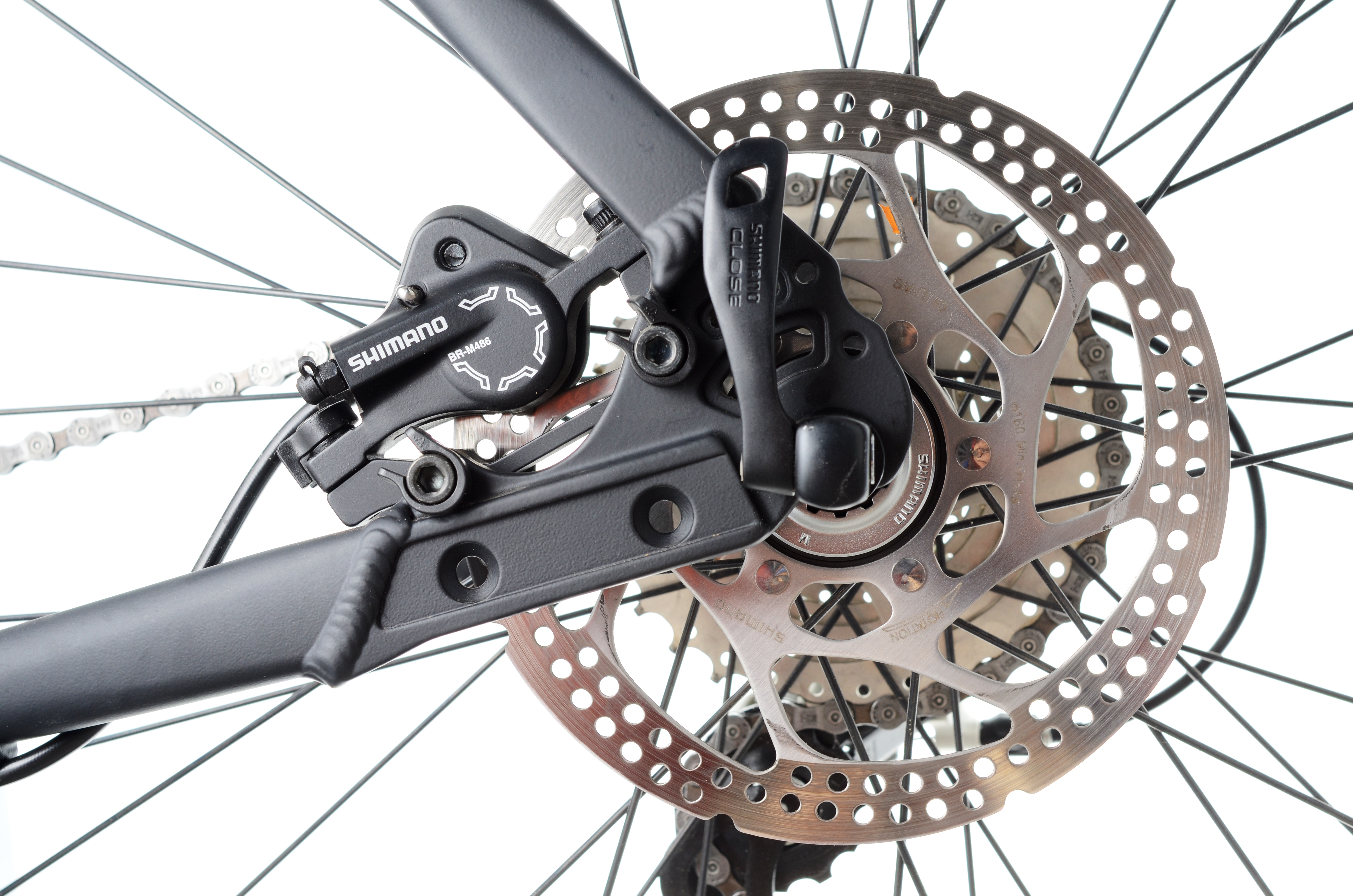 Disc brake by Shimano on a Swiss Cresta bicycle